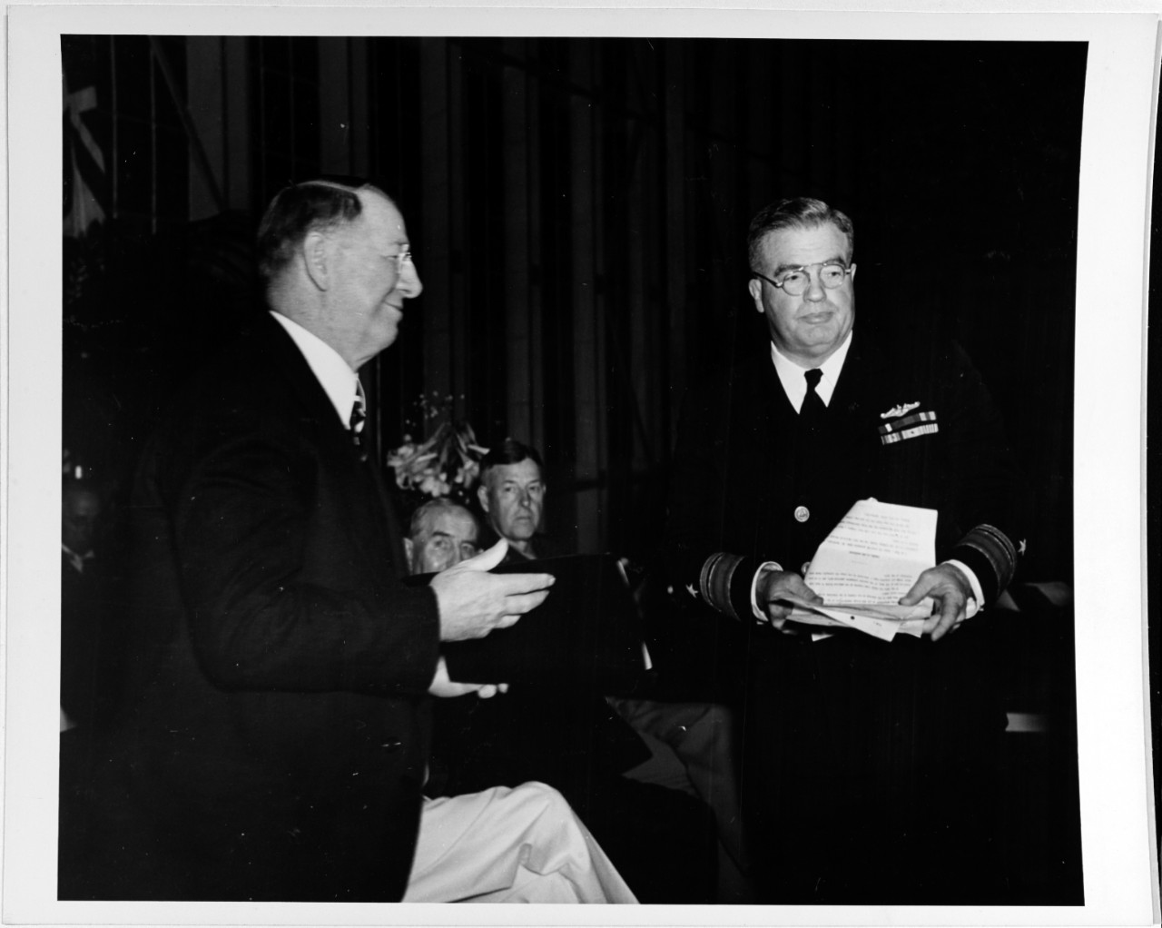 Secretary Frank Knox and Rear Admiral Ingram C. Sowell, USN, attend the third anniversary celebration of the establishment of the U.S. naval base at Bermuda, British West Indies, 6 April 1944. Rear Admiral Sowell was the Commanding Officer of the base.